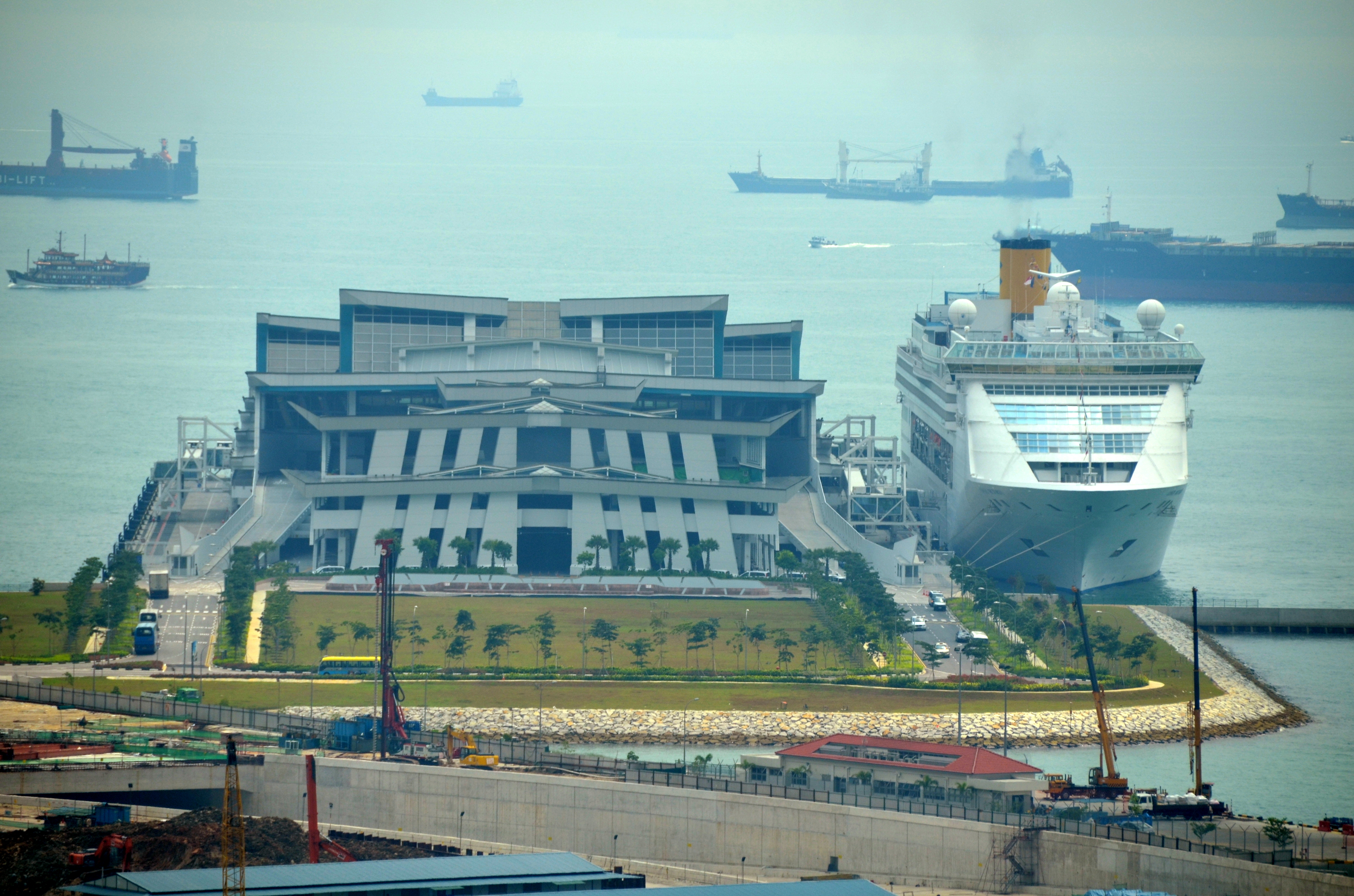 Costa Victoria Costa Crociere docked at Marina Bay Cruise Centre Singapore